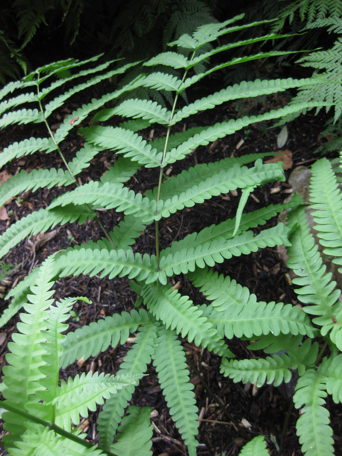 Photographed at the Royal Botanic Gardens Sydney (Australia) in January